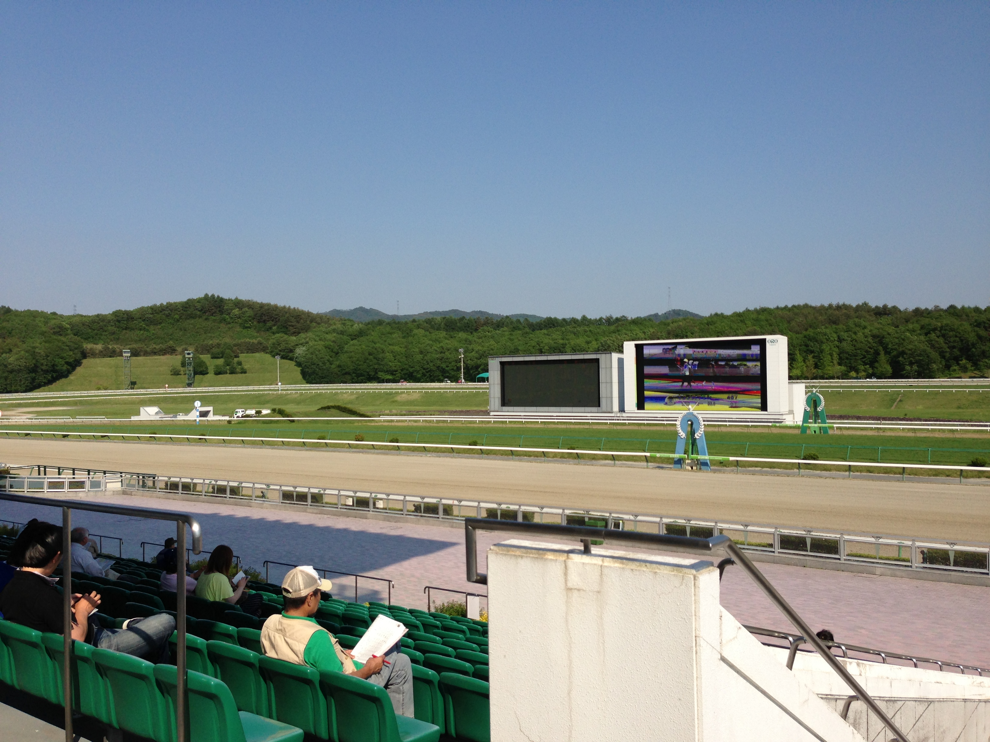 Morioka racecourse